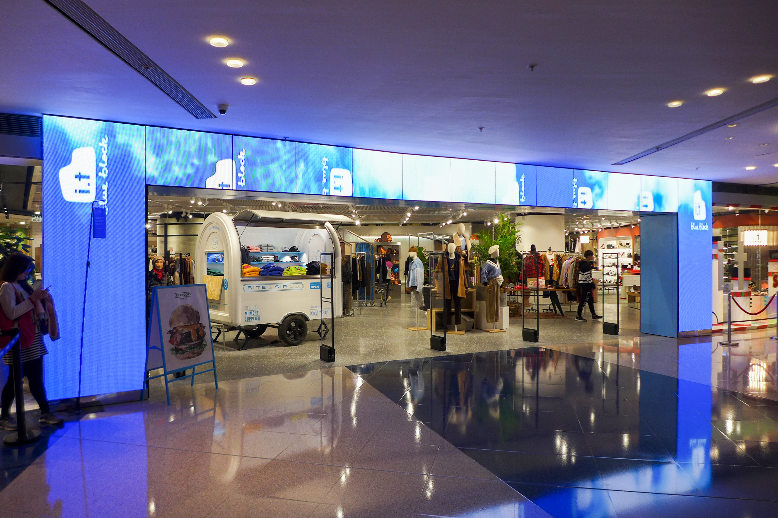 i.t blue block in Festival Walk